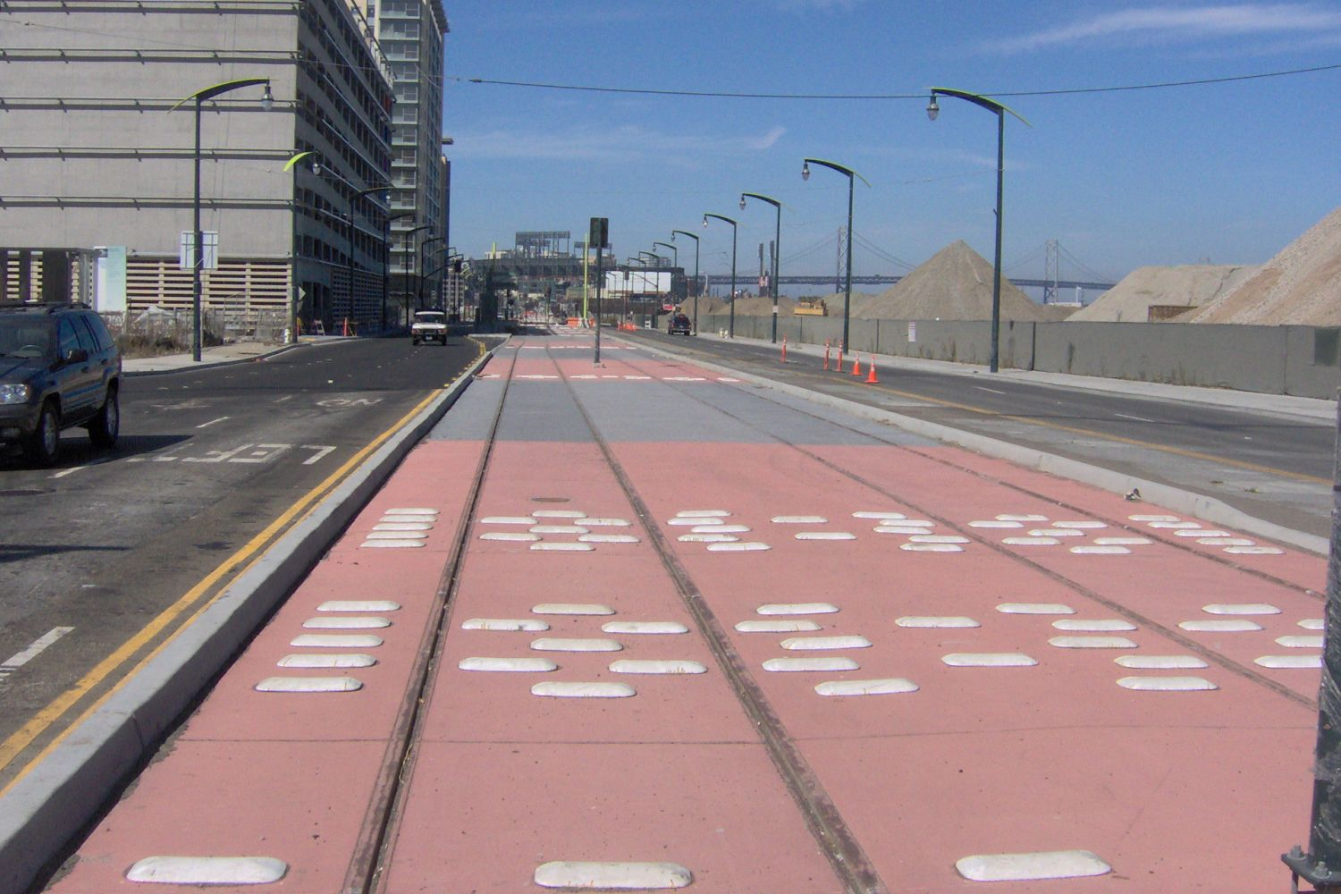 New Muni Metro tracks for the Third Street Light Rail Project on 3rd Street north of 16th Street, photographed in September 2005